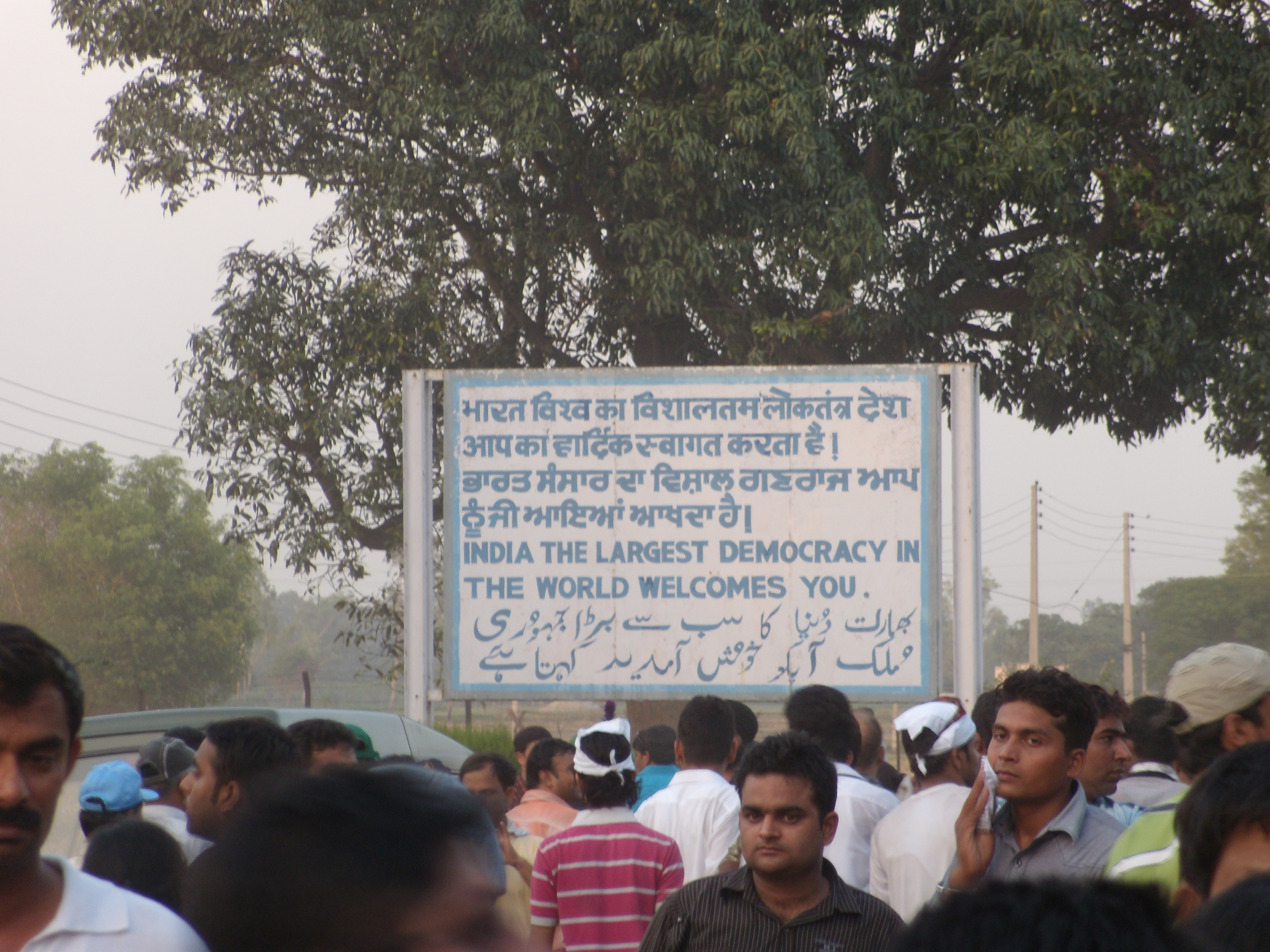 Sign at the Pakistan-India border at Waga